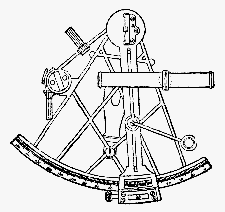 Sextant